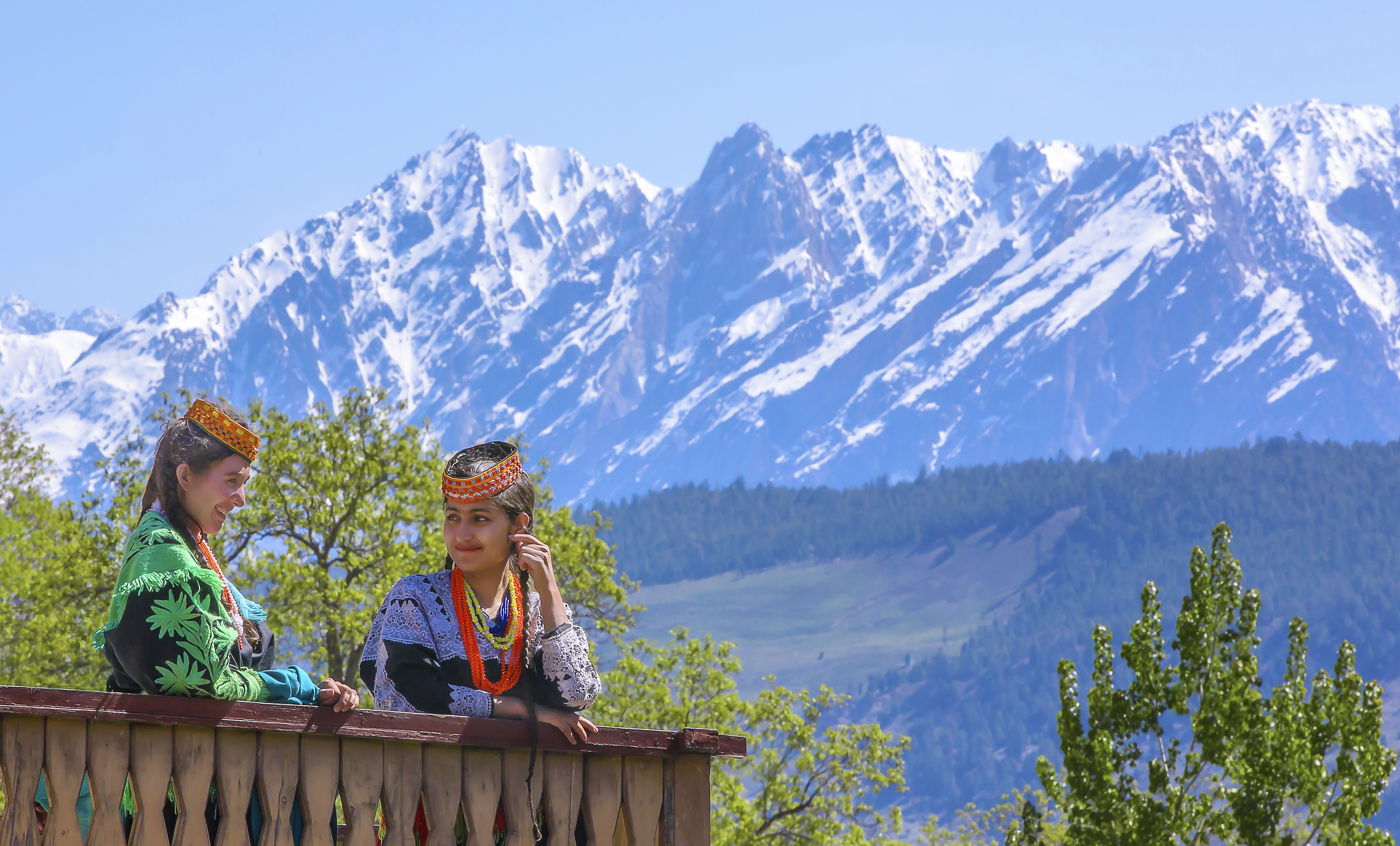 Birir Valley Chitral is a Natural protected coniferous forest area. Kalash people live there and in two other valleys namely Rumbur and Bumbret. Kalasha Desh (the three Kalash valleys) is made up of two distinct cultural areas, the valleys of Rumbur and Brumbret forming one, and Birir valley the other; Birir valley being the most traditional of the two. The picture of two kalash girls in their traditional dress and head-wear was taken with forest in the background.